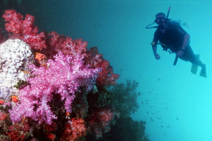 Pulau Sibu has many excellent coral reefs, and is an good place to learn to SCUBA dive.